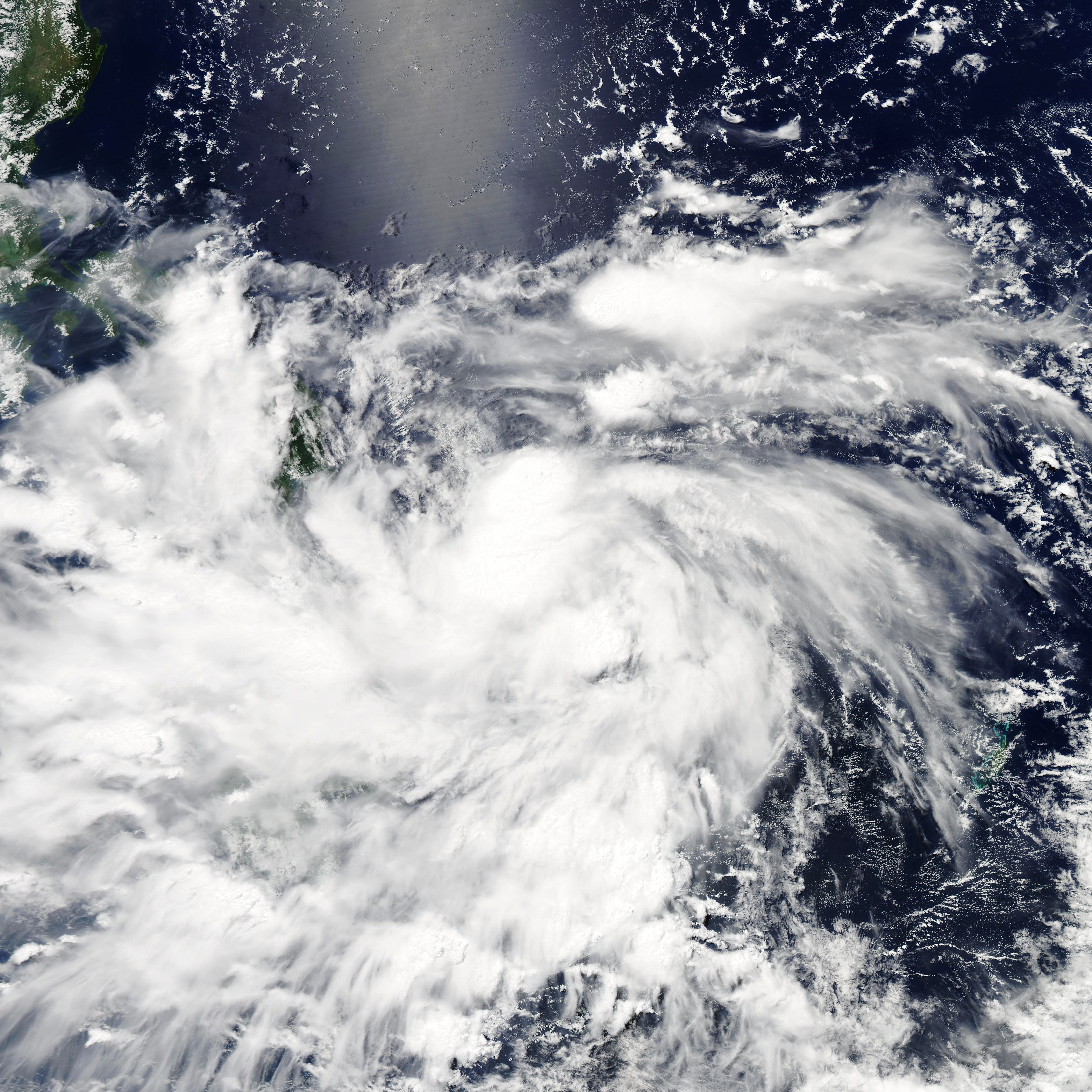 Tropical Storm Rumbia (PAGASA: Gorio) of the 2013 Pacific typhoon season on June 28, 2013 at 0445z.